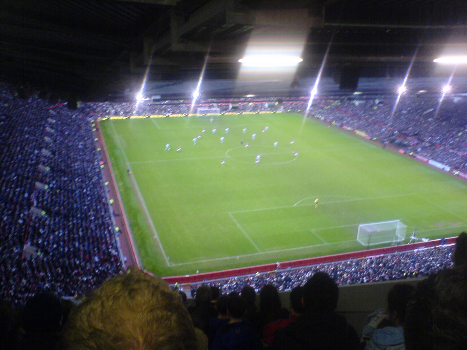 Old Trafford, Manchester (right beside Stretford End) vs Aston Villa, FA-cup jan 2007